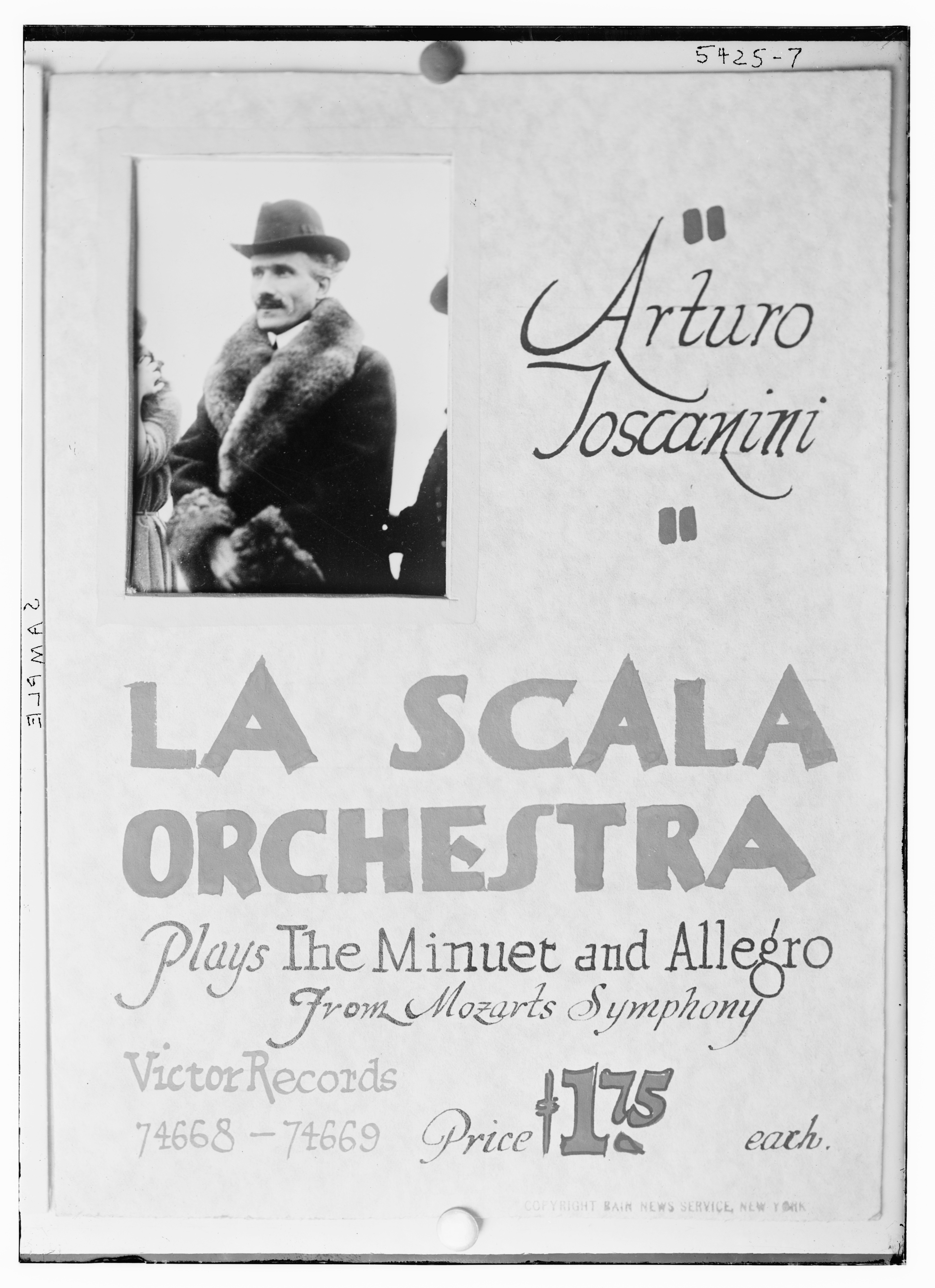 Toscanini early record.